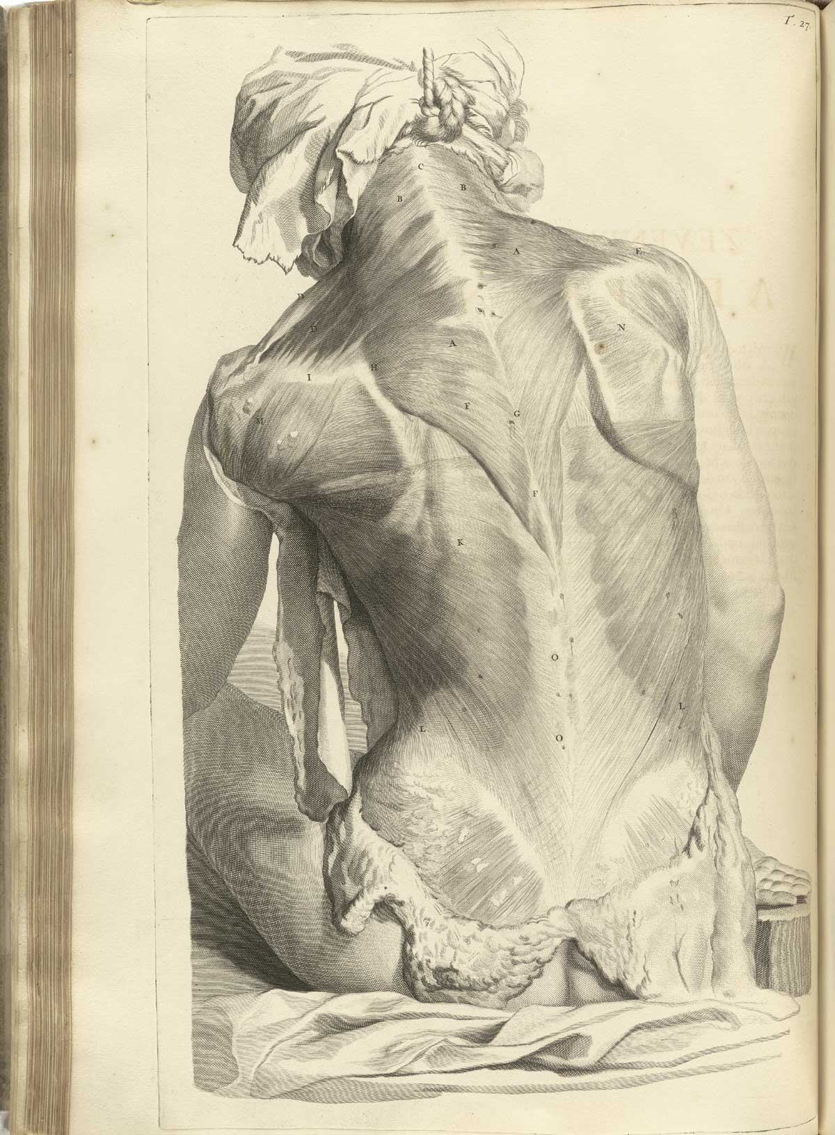 Bidloo, Govard (1649-1713): Ontleding des menschelyken lichaams Amsterdam, 1690. (= dutch language edition of Anatomia humani corporis, 1685)